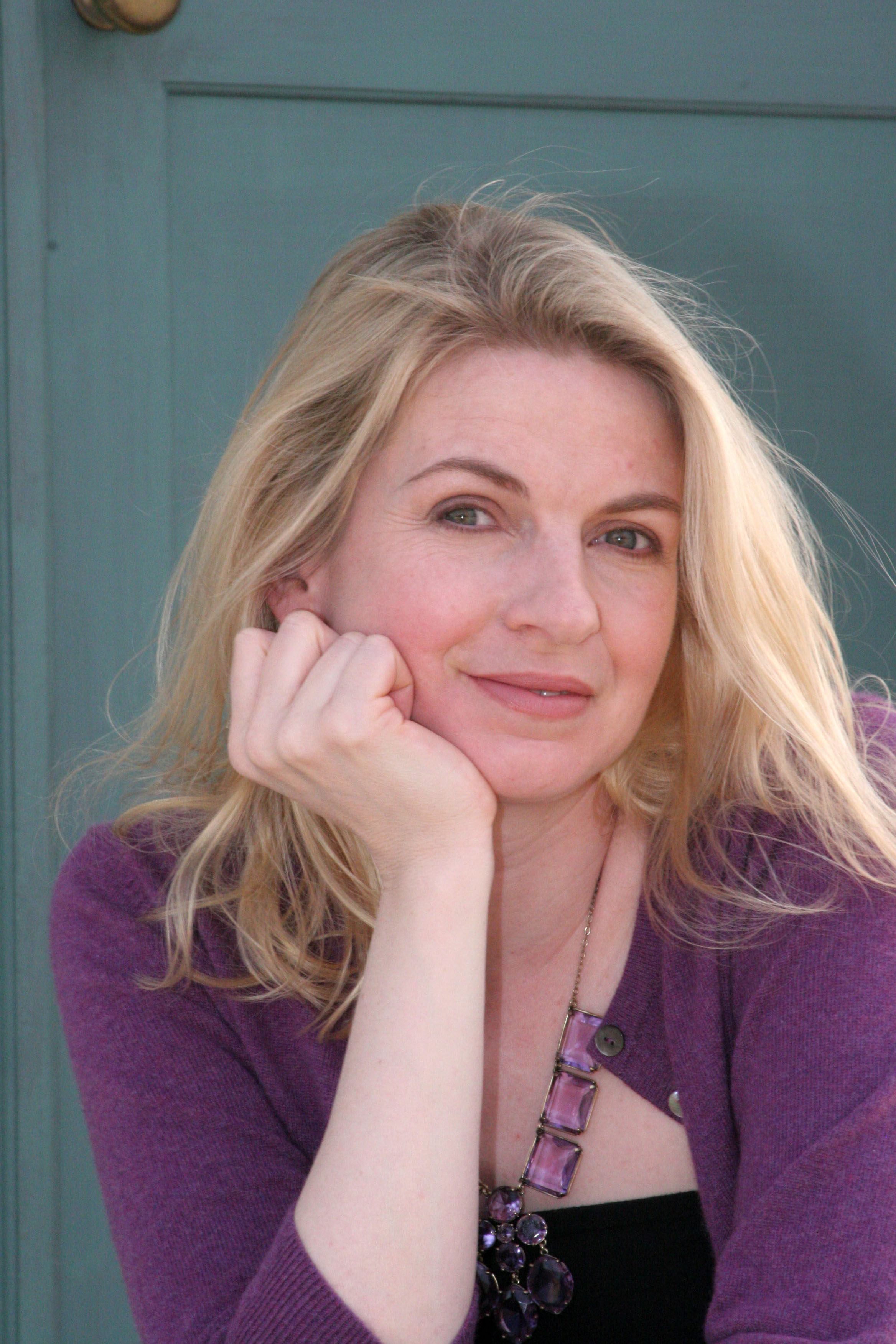 Author Jennifer Donnelly, Revolution publicity photo.